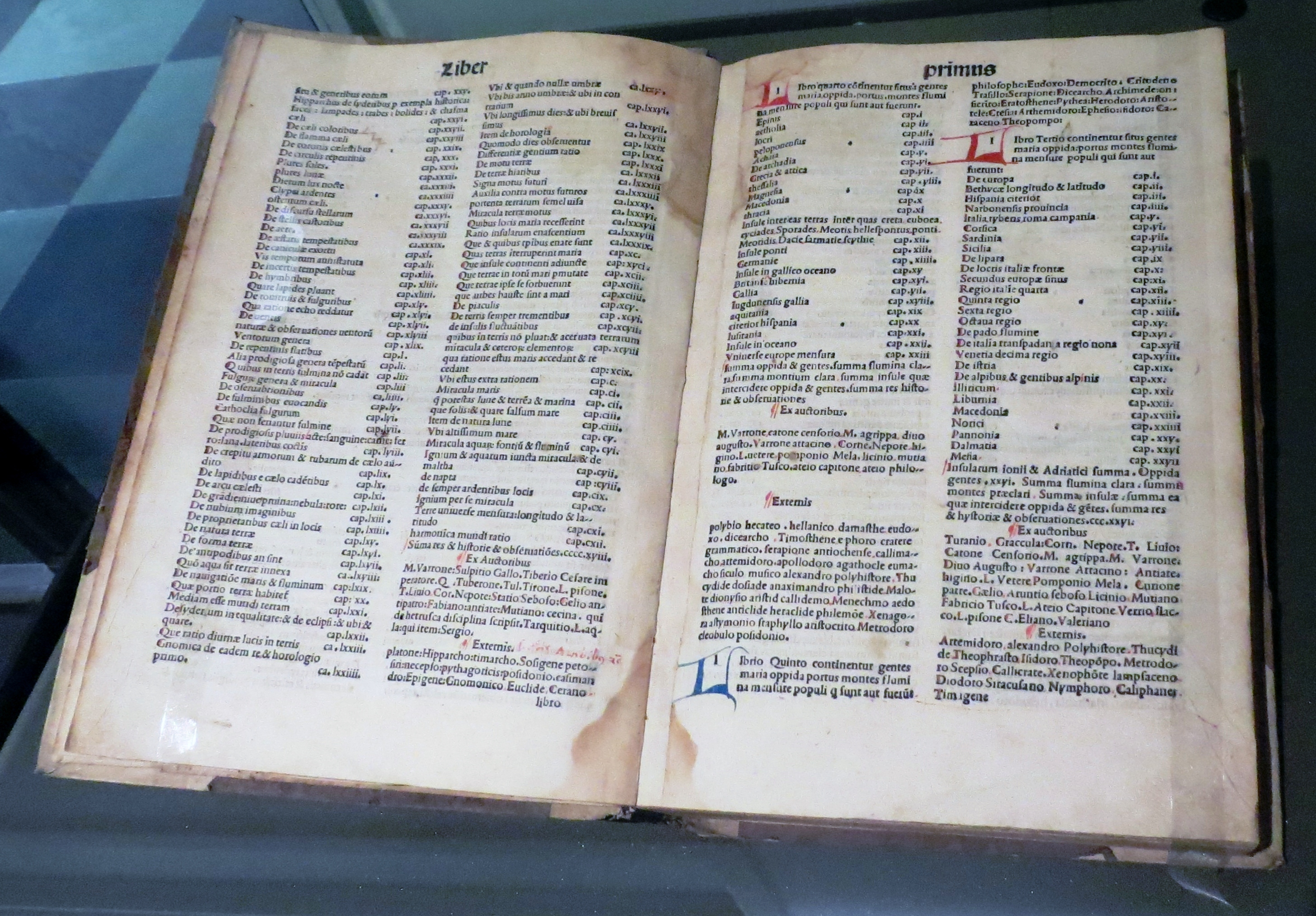 Pliny the Elder (Plinius Maior), Naturalis historia, work printed by Johannes Alvisius in 1499 in Venezia (Italy).